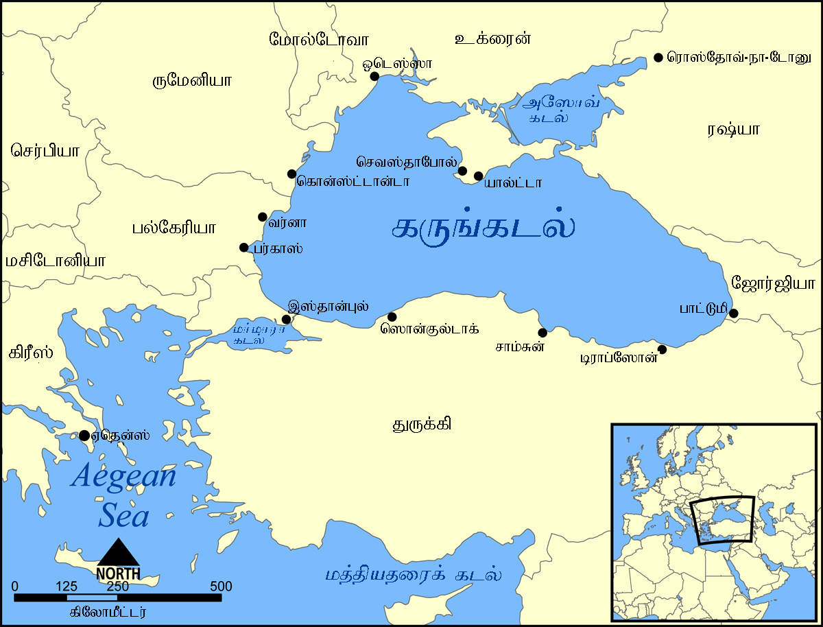 Black Sea map ta